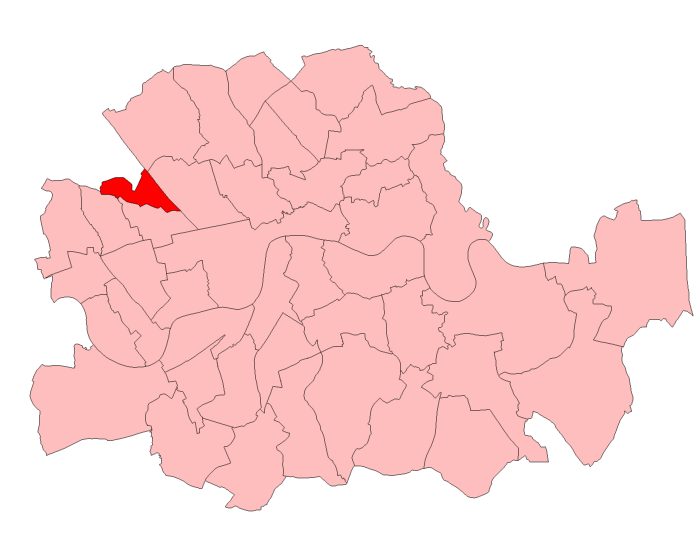 A map of Paddington North constituency within the London County Council area, as it existed from 1950 to 1974.